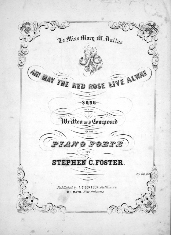 Sheet music cover dated 1850